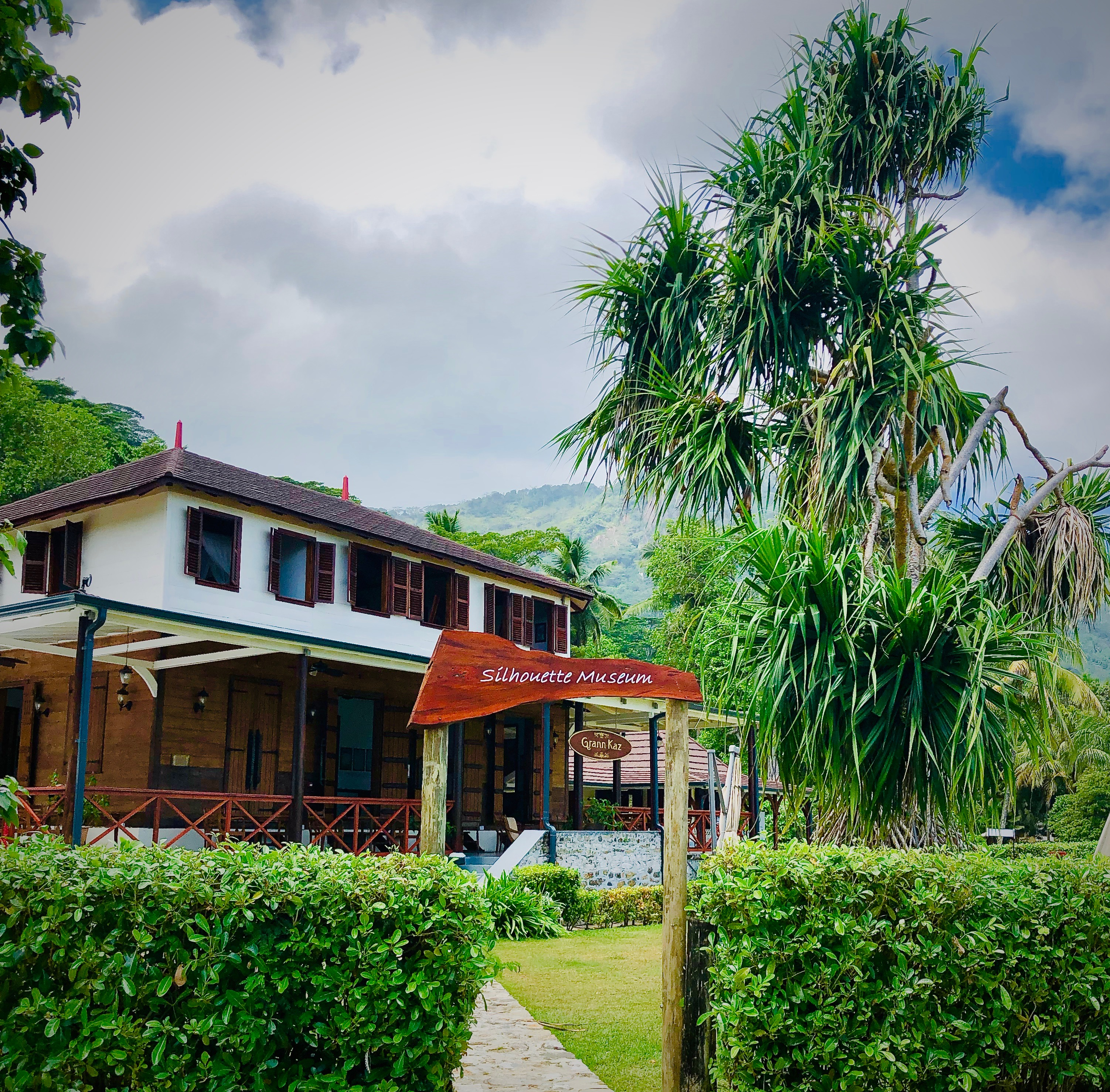 The Dauban's were plantation owners of French extortion. They cleared the forest, planting Coconut Palms, spices and flowers for distillation. The number of laborers working and living on the island eventually grew to a 1000.